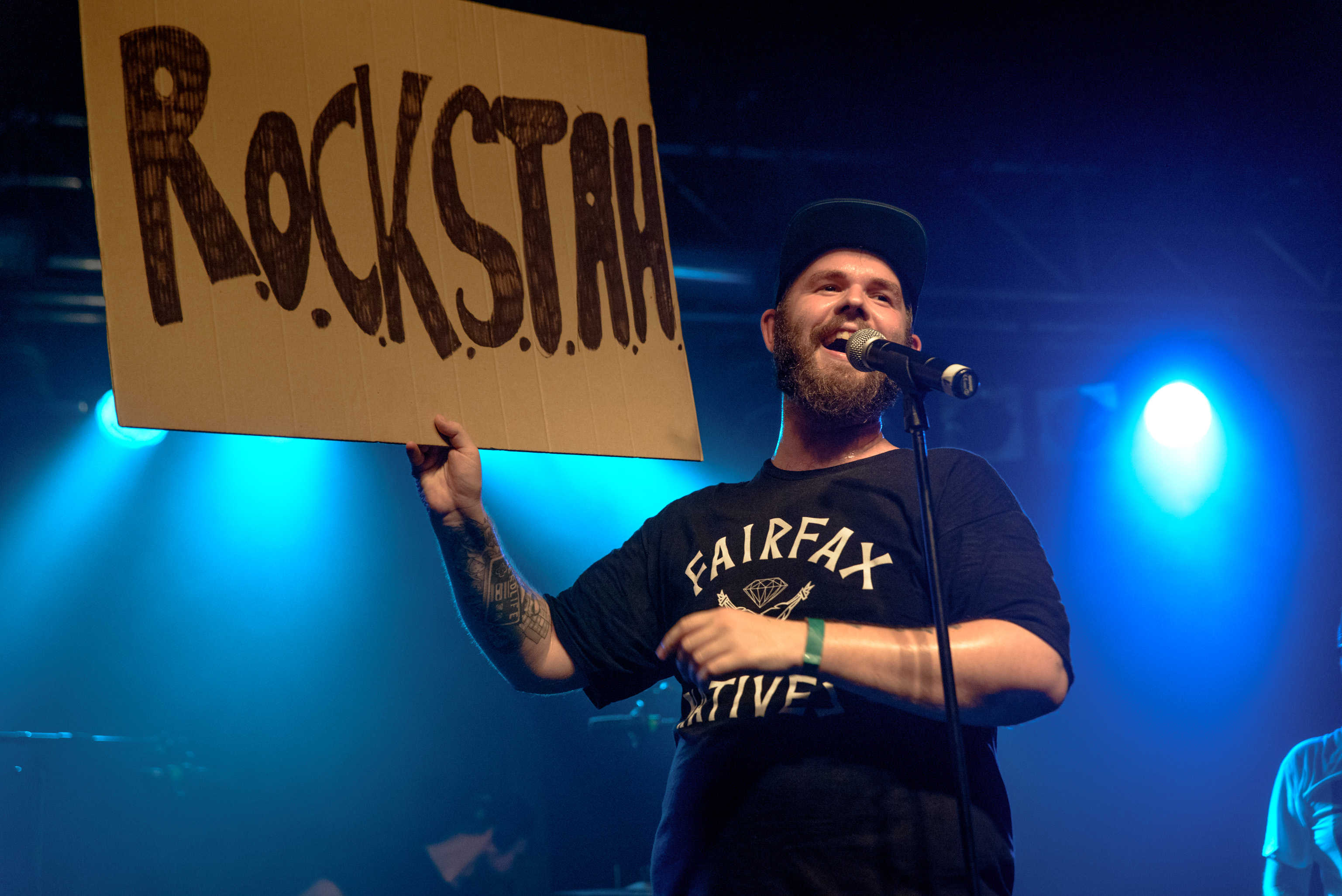 Rockstah Live @ Free & Easy Festival 2015